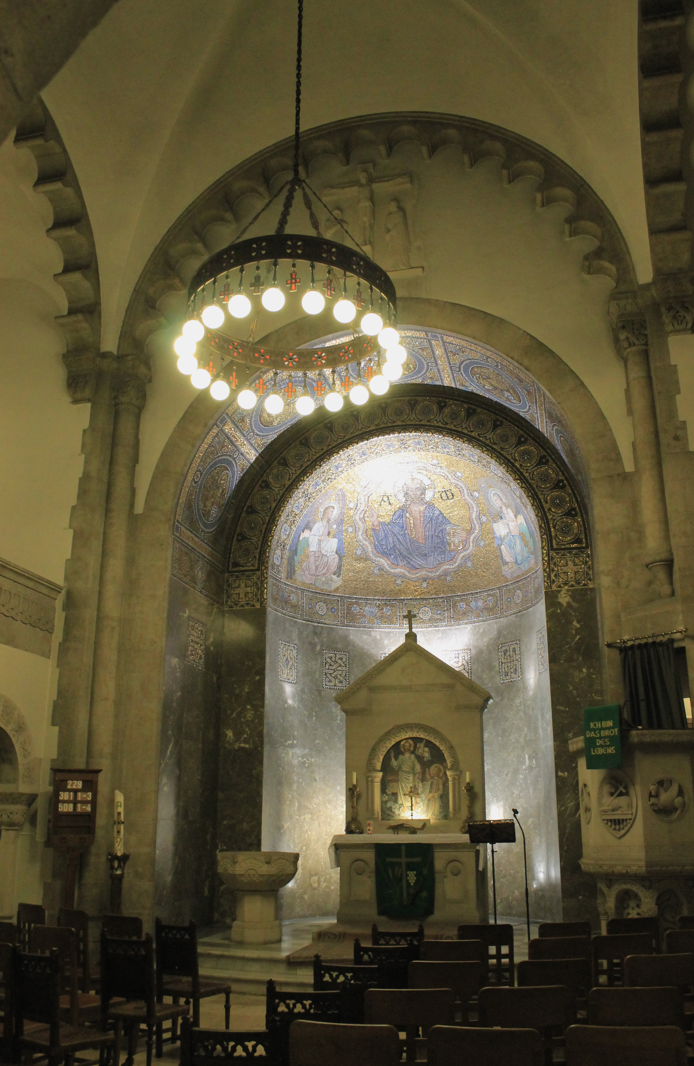 Interior of the German-Speaking Evangelical Church in Madrid (Spain).